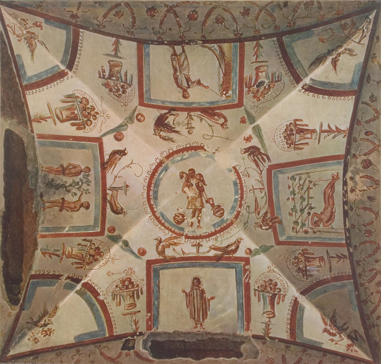 Cemeterium Maius